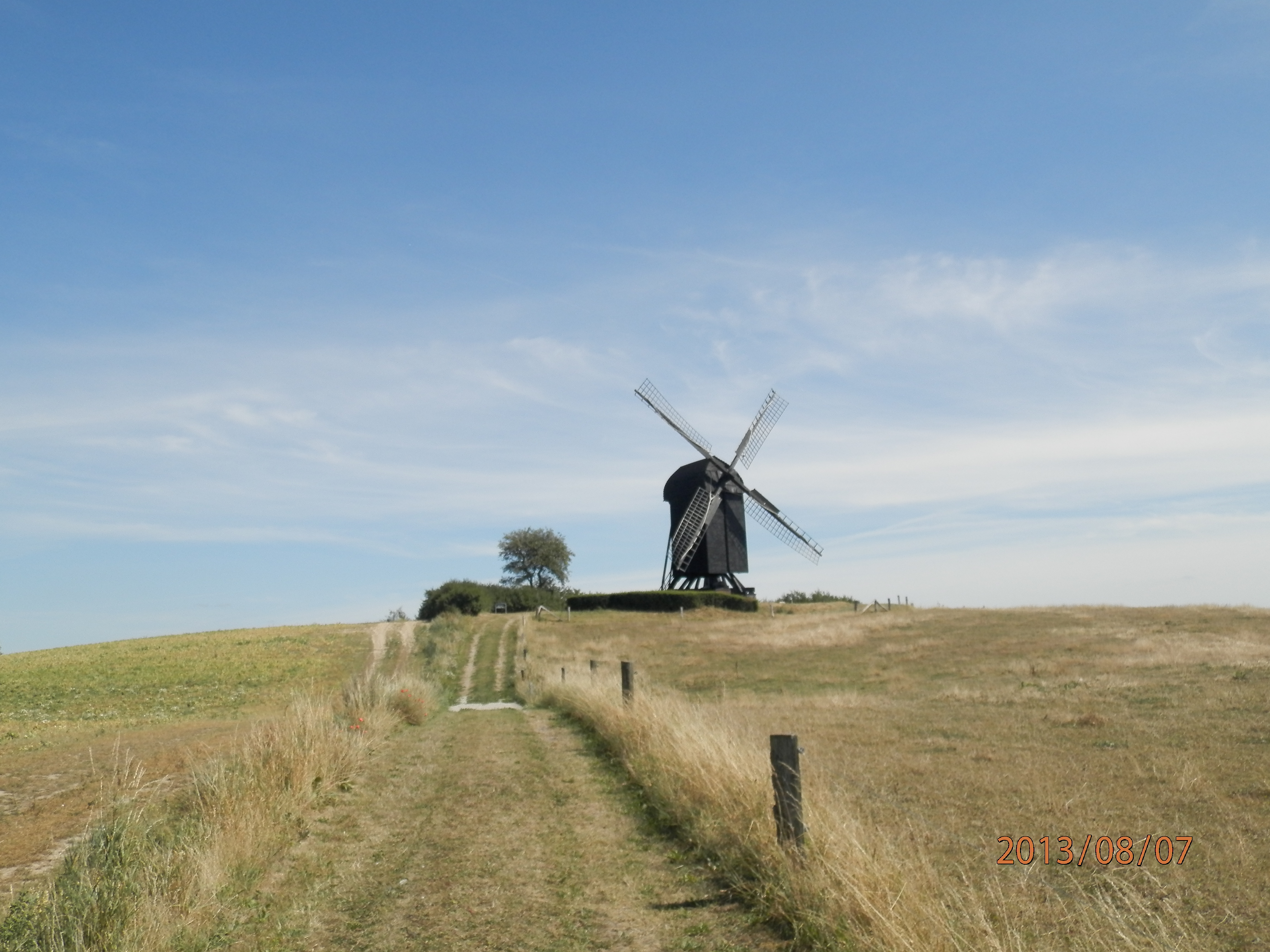 old Danish windmill in Gribskov DenmarkDansk: Pibe Mølle, en stubmølle iGribskov Kommune. Det er den enste stubmølle på Sjælland, der er funktionsdygtig